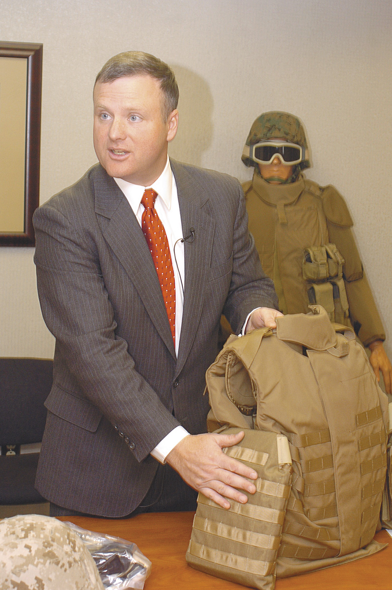 Retired Lt. Col. Dan Fitzgerald discusses an advanced version of the Interceptor Body Armor System that covers up to 75 percent of the body with four levels of add-on armor with ballistic protection for extremities, including the neck, shoulders, arms, groin and legs.